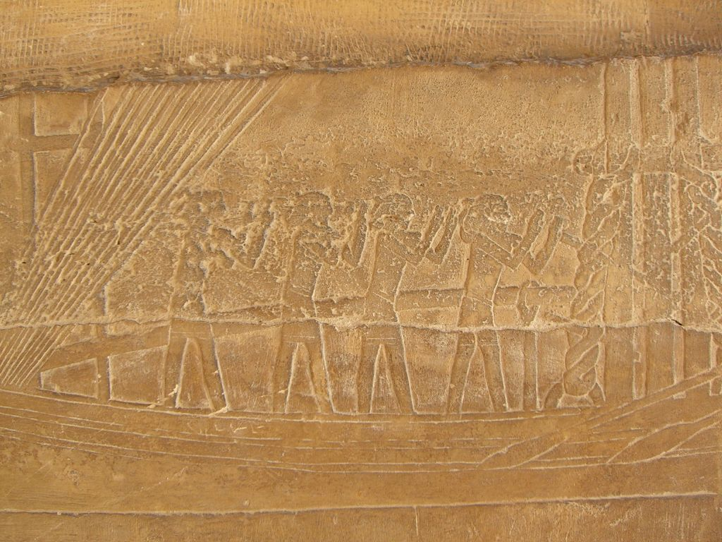 Pharaoh Unas relief; the final pharaoh of the 5th dynasty.